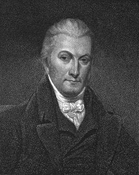 Portrait of William Vint (1768–1834), English congregationalist minister and dissenting academy tutor, from the Evangelical Magazine and Missionary Chronicle, 1819